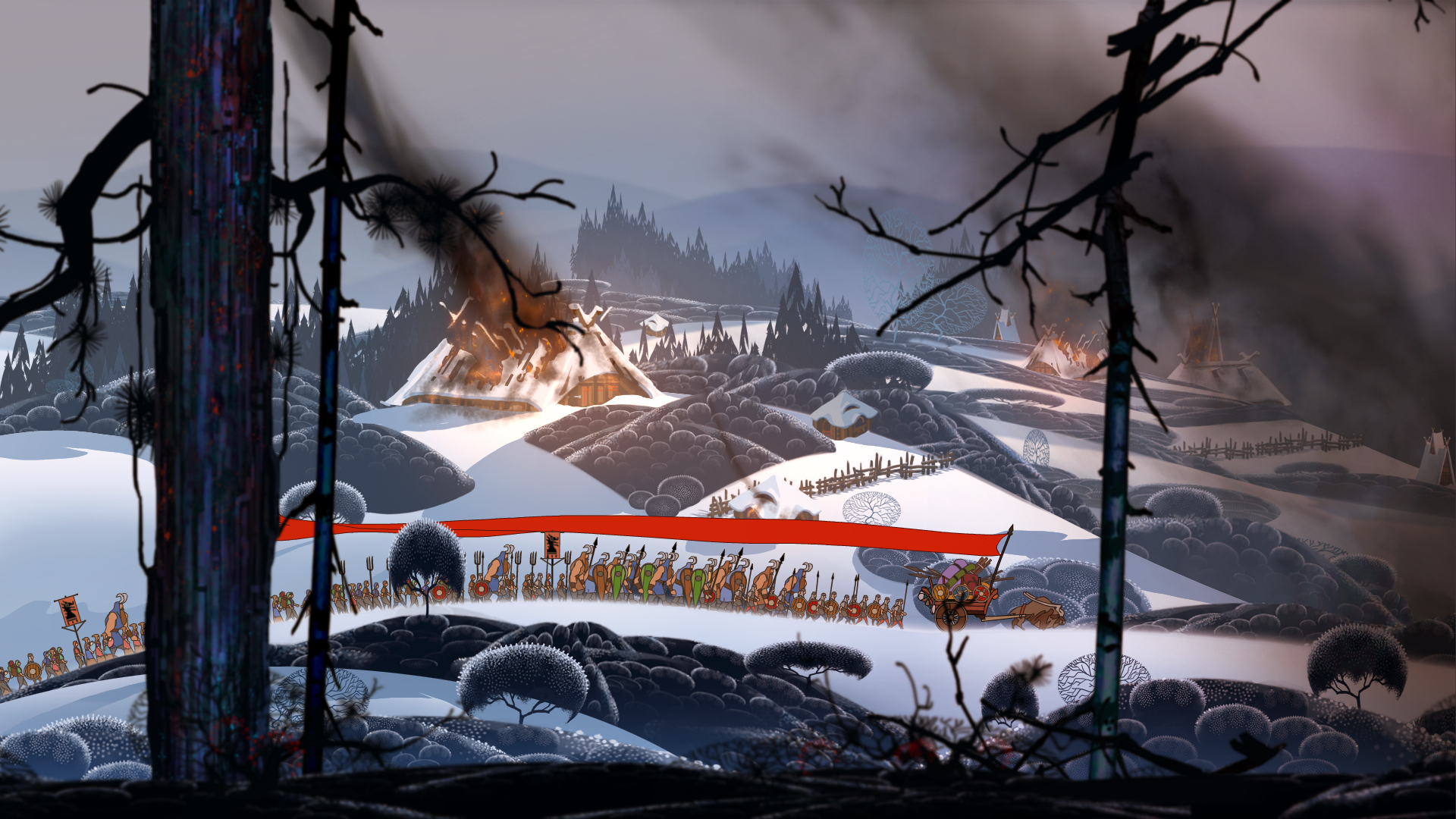 Development artwork from the video game The Banner Saga.